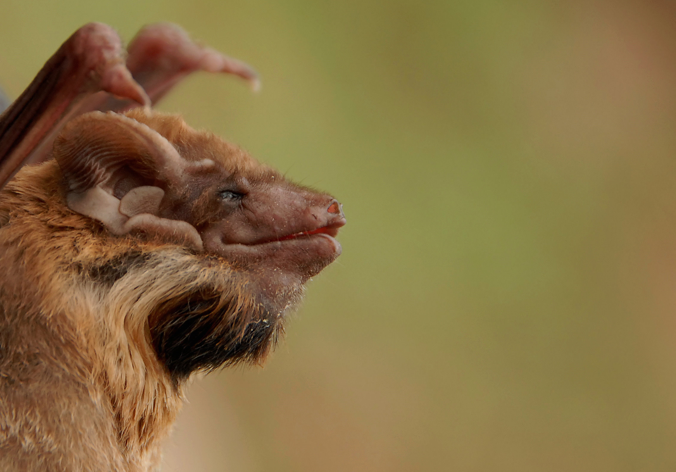 Black-bearded tomb bat (Taphozous melanopogon), male with prominent black beard.